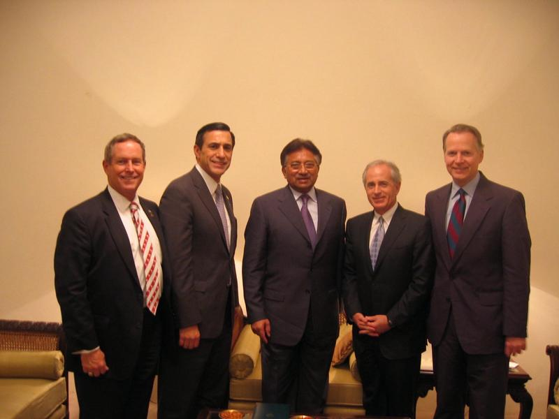 Members of the delegation met with Pakistani President Pervez Musharraf in Islamabad. From left to right: Congressman Joe Wilson, R-S.C, Congressman Darrell Issa, R-Calif., President Pervez Musharraf, Senator Corker, and Congressman David Dreier, R-Calif.